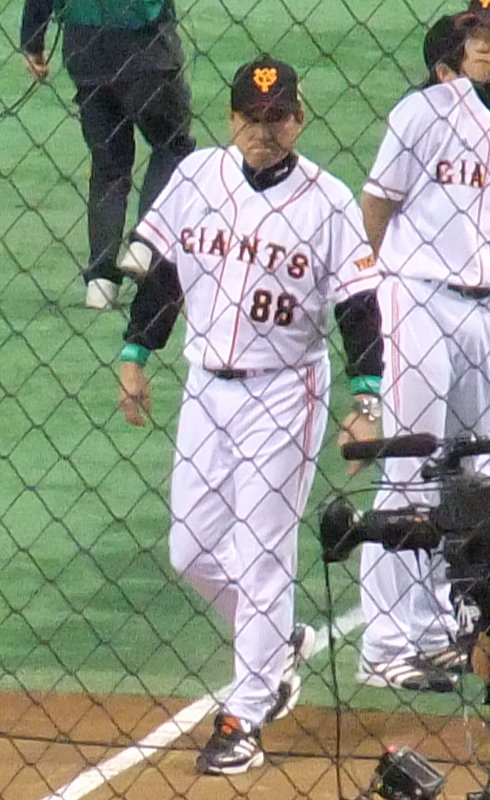 Tatsunori Hara, manager of the Yomiuri Giants, at Tokyo Dome.